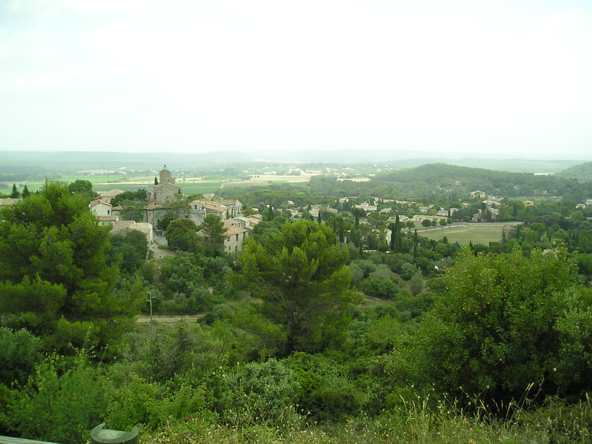 Same viewpoint of Saint-Jean-de-Cuculles as this picture with extended view all around: recently built houses and "Le Bosquet" hill going to the right ; Le Triadou further on the left ; and at the further backgrounds, the last lines of forest hills before Montpellier.